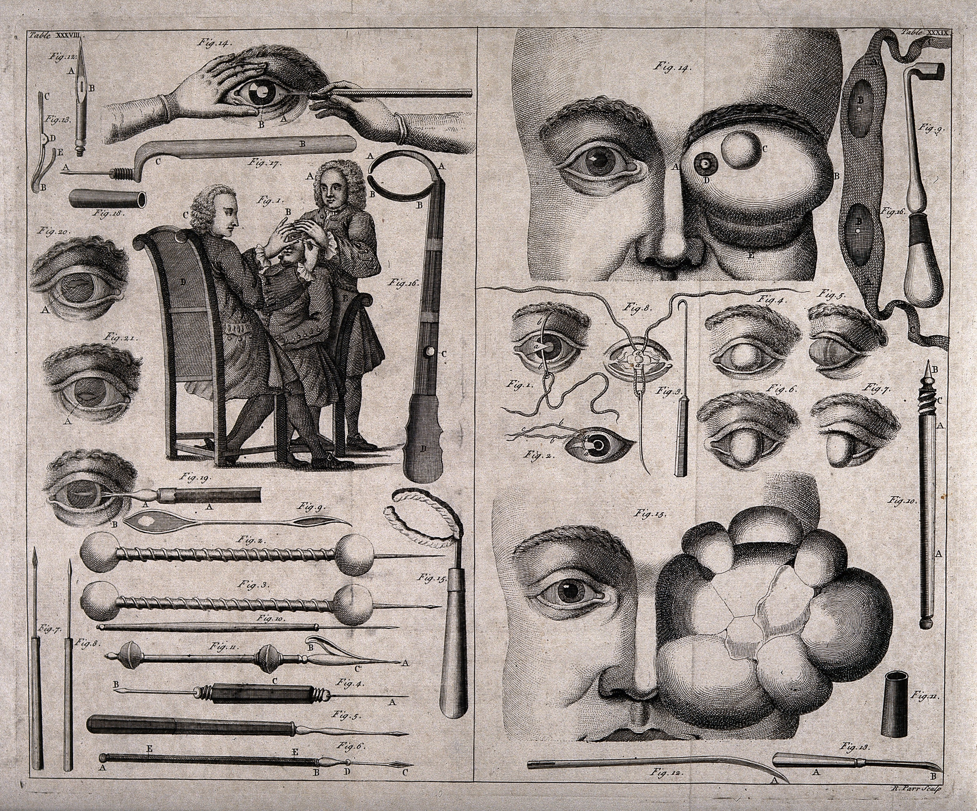 A double sheet showing various ophthalmology instruments, eye growths, a cataract operation and other eye defects. Line engraving by R. Parr, 1743-45. Iconographic Collections Keywords: engravings; Remi Parr; eye - diseases and defects; Ophthalmology; operations, surgical; ophthalmology - instruments; scientific illustrations